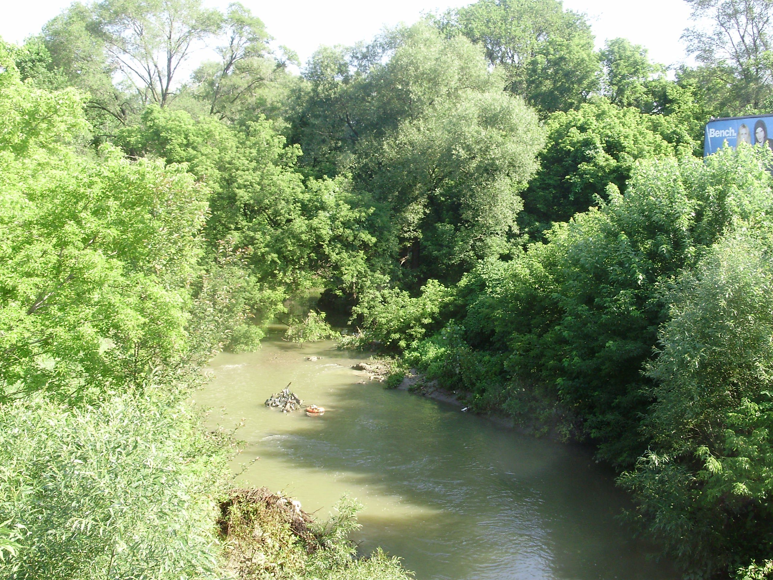 The Black Creek in Toronto, Ontario, Canada, looking north from where it flows beneath Eglinton Avenue West.